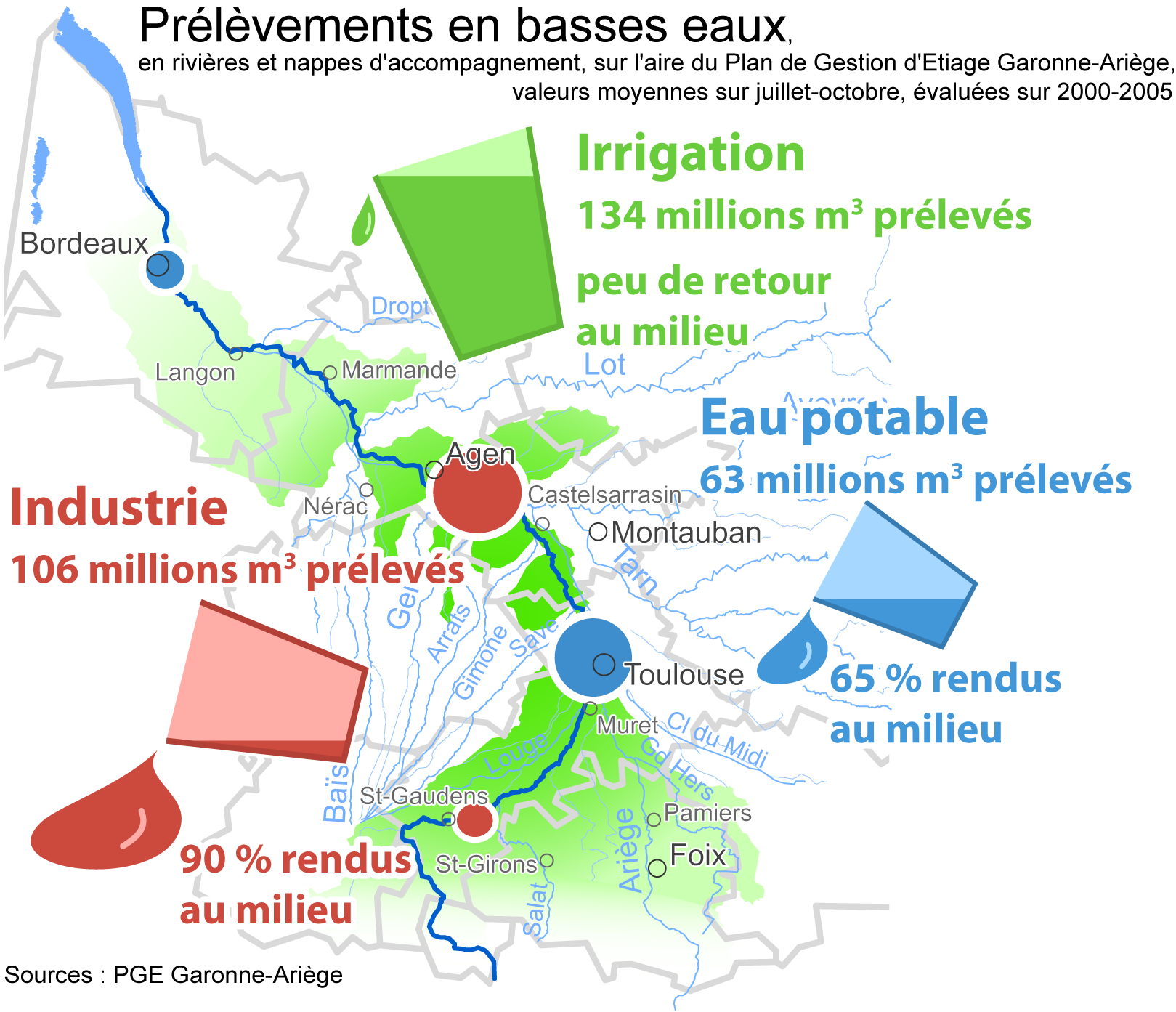 Carte des prélèvements d'eau en étiage sur le fleuve Garonne